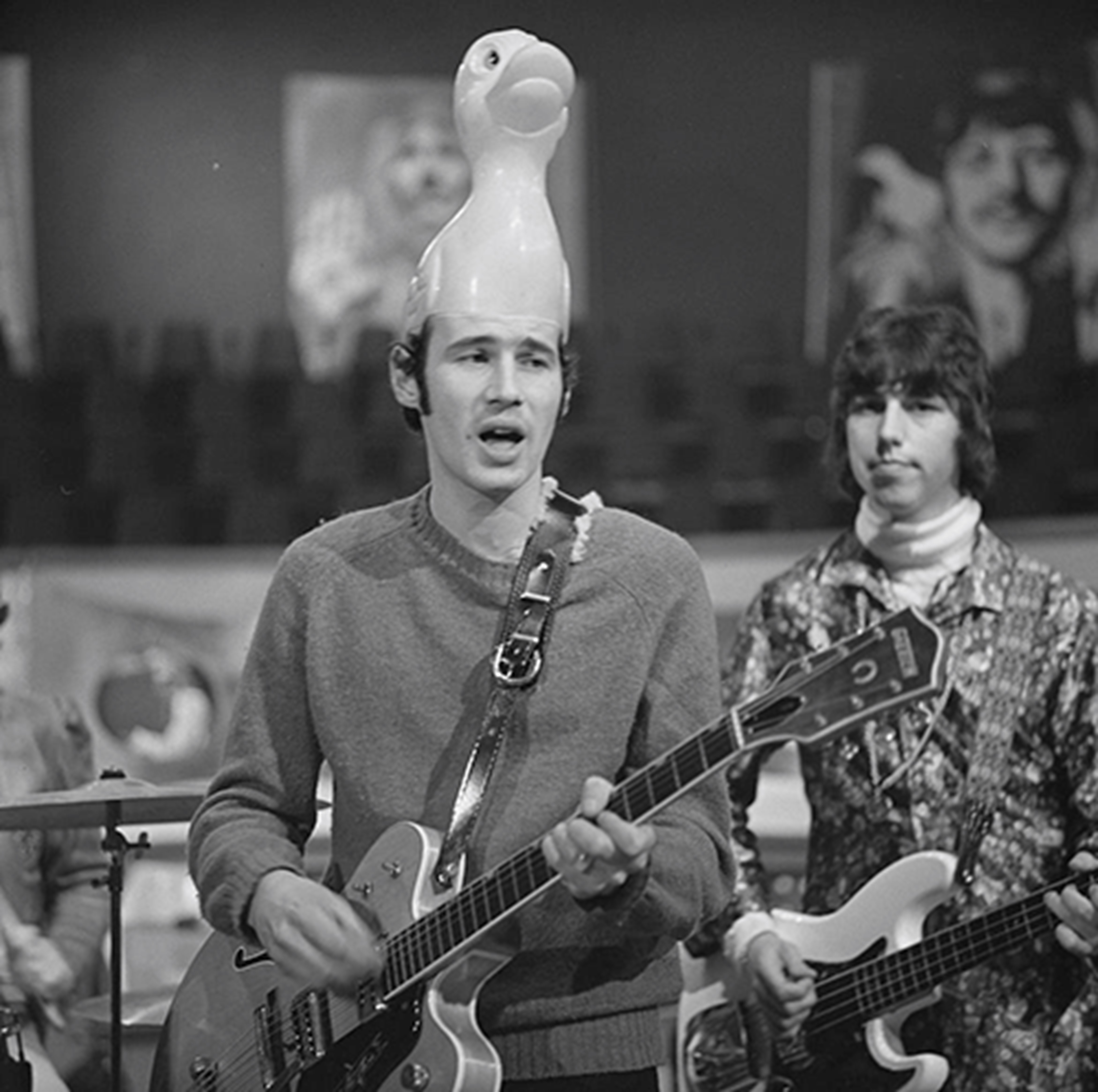 Bonzo Dog Doo-Dah Band in Fenklup (Dutch TV), 7 June 1968. Broadcast 5 July 1968. Left to right: probably Neil Innes & an unknown bass player.